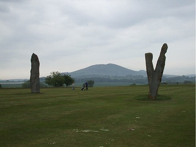 Standing Stones at Lundin Links on the Ladies Golf Course